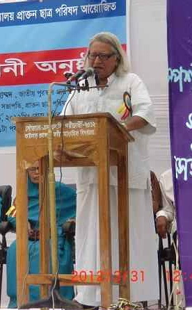 Belal Muhammad delivering speech at a seminar in Sandwip